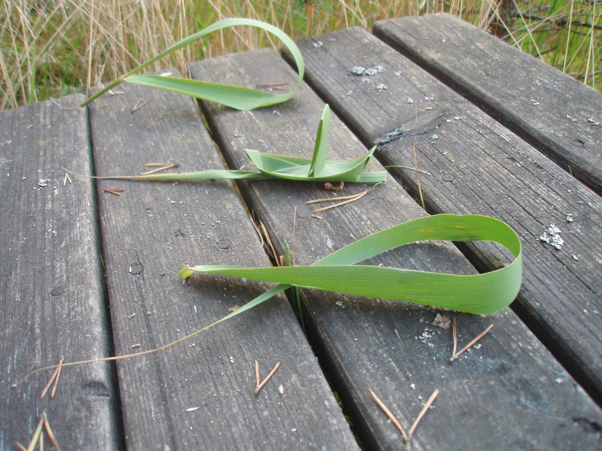 Different types of reed boats as toys